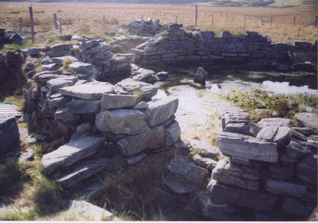 Flooded Dun near Cnip The flooded dun near A'Bheirigh farm.